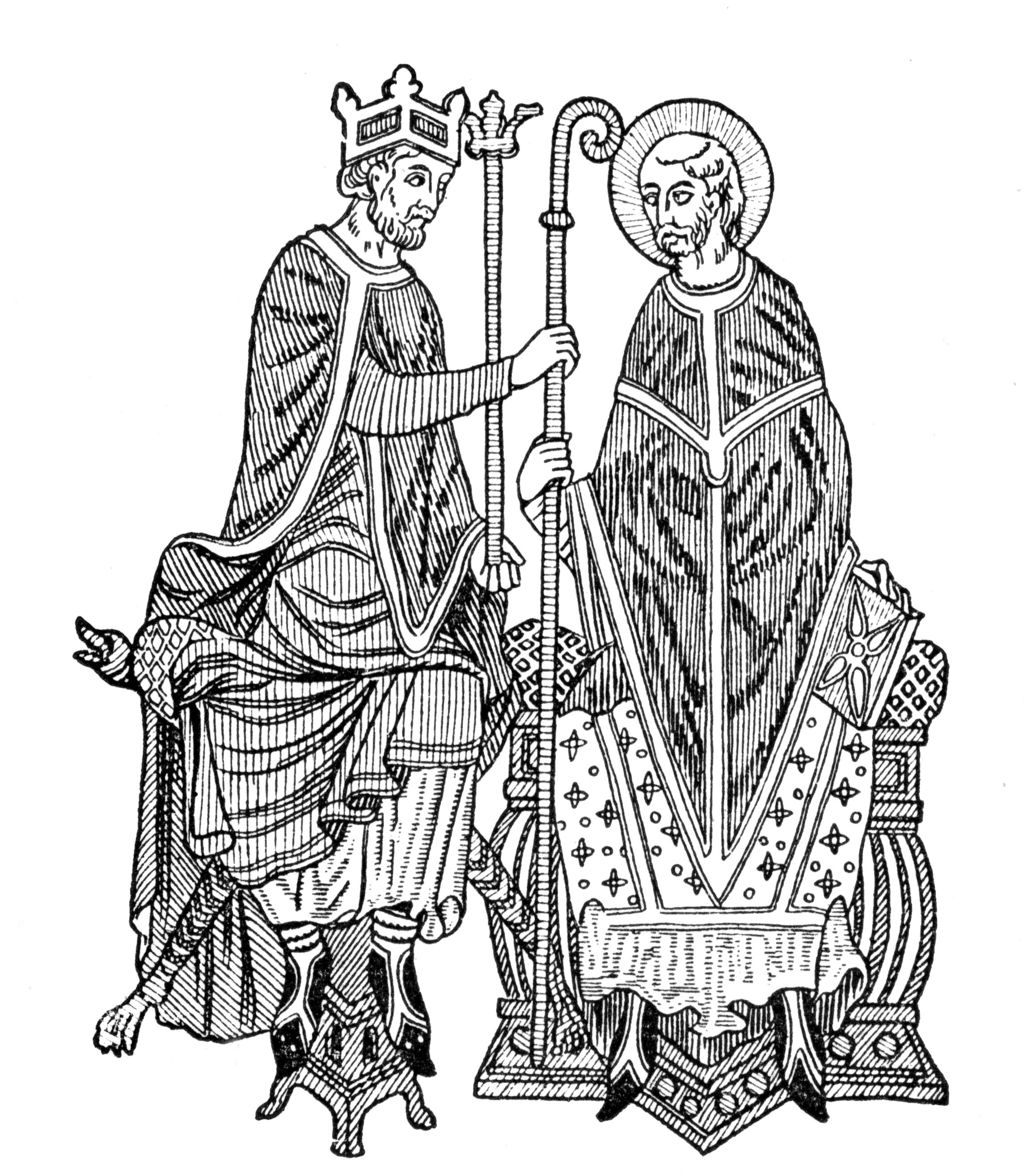 Medieval king investing a bishop with the symbols of his episcopate (crozier etc)